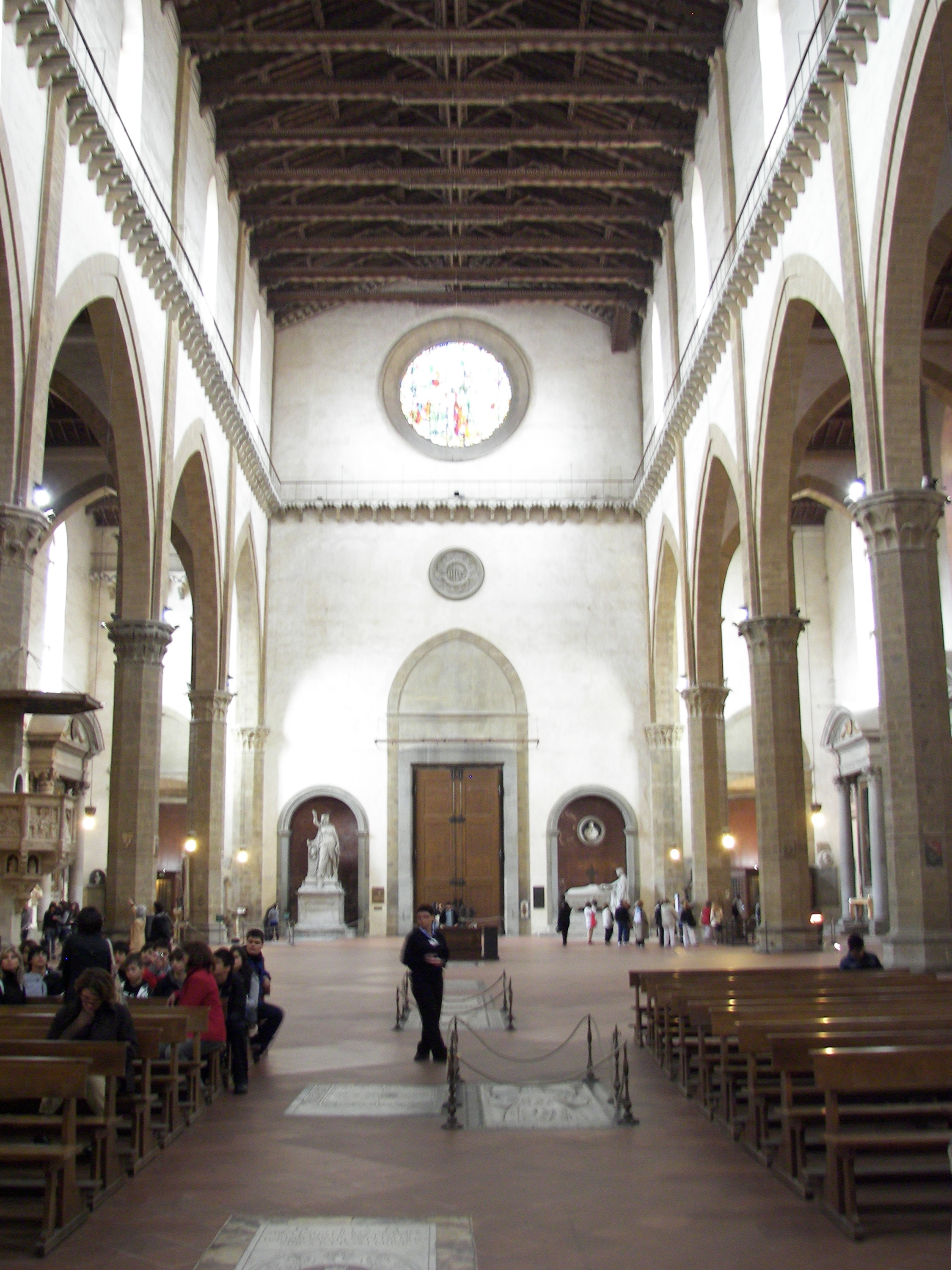 Interior of Santa Croce in Firenze.